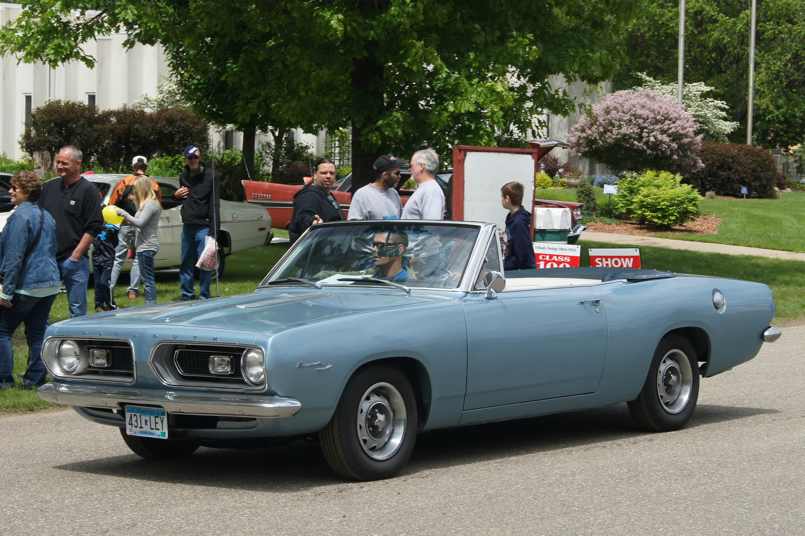 Midwest Mopars in the Park National Car Show & Swap Meet Dakota County Fairgrounds Farmington, Minnesota May 30 & 31, 2015 Click here for more car pictures at my Flickr site.